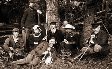 The Eberhard Family.